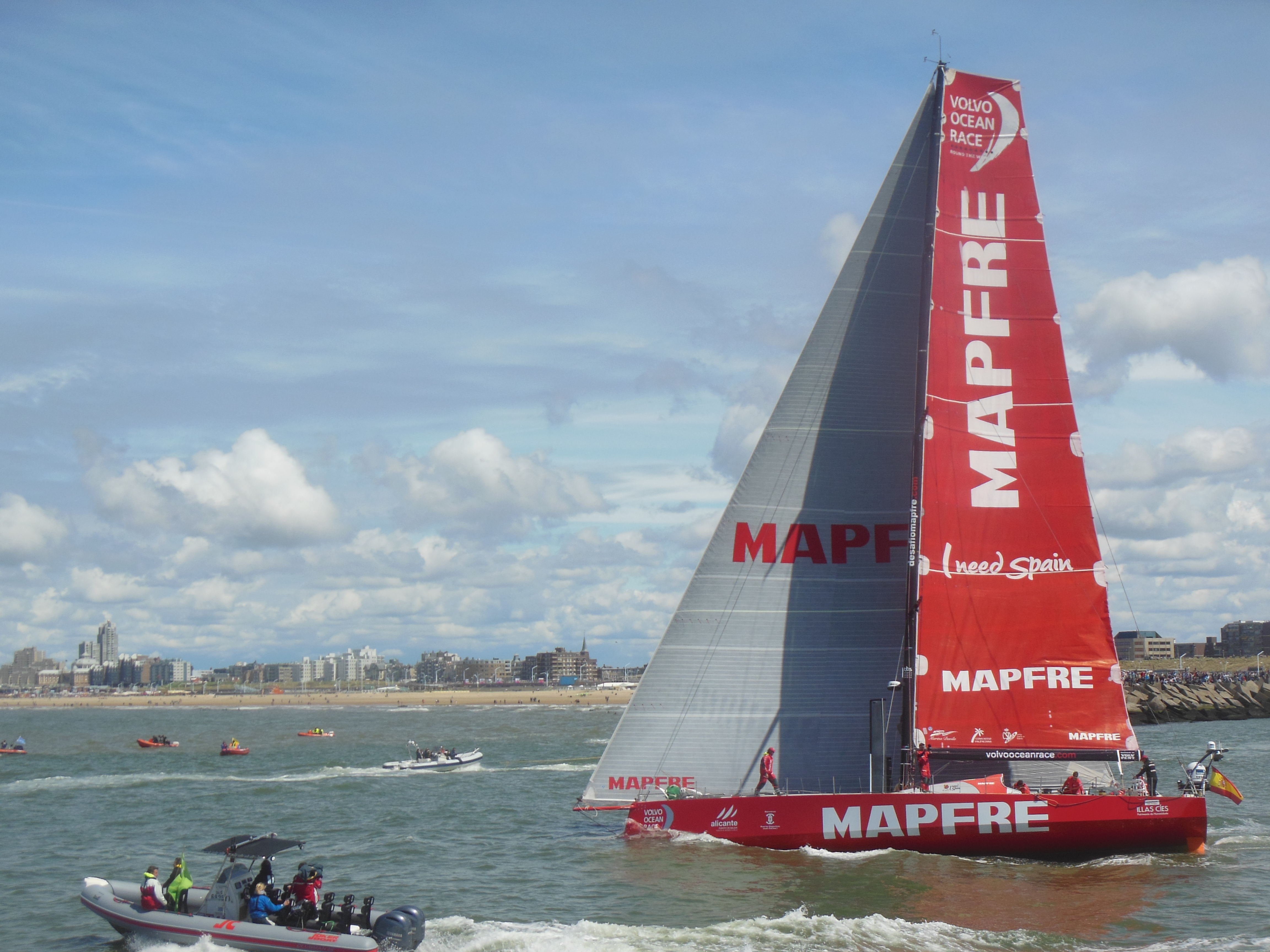 VO65 MAPFRE at the re-start after the pitstop in Scheveningen, Volvo Ocean Race 2014-15